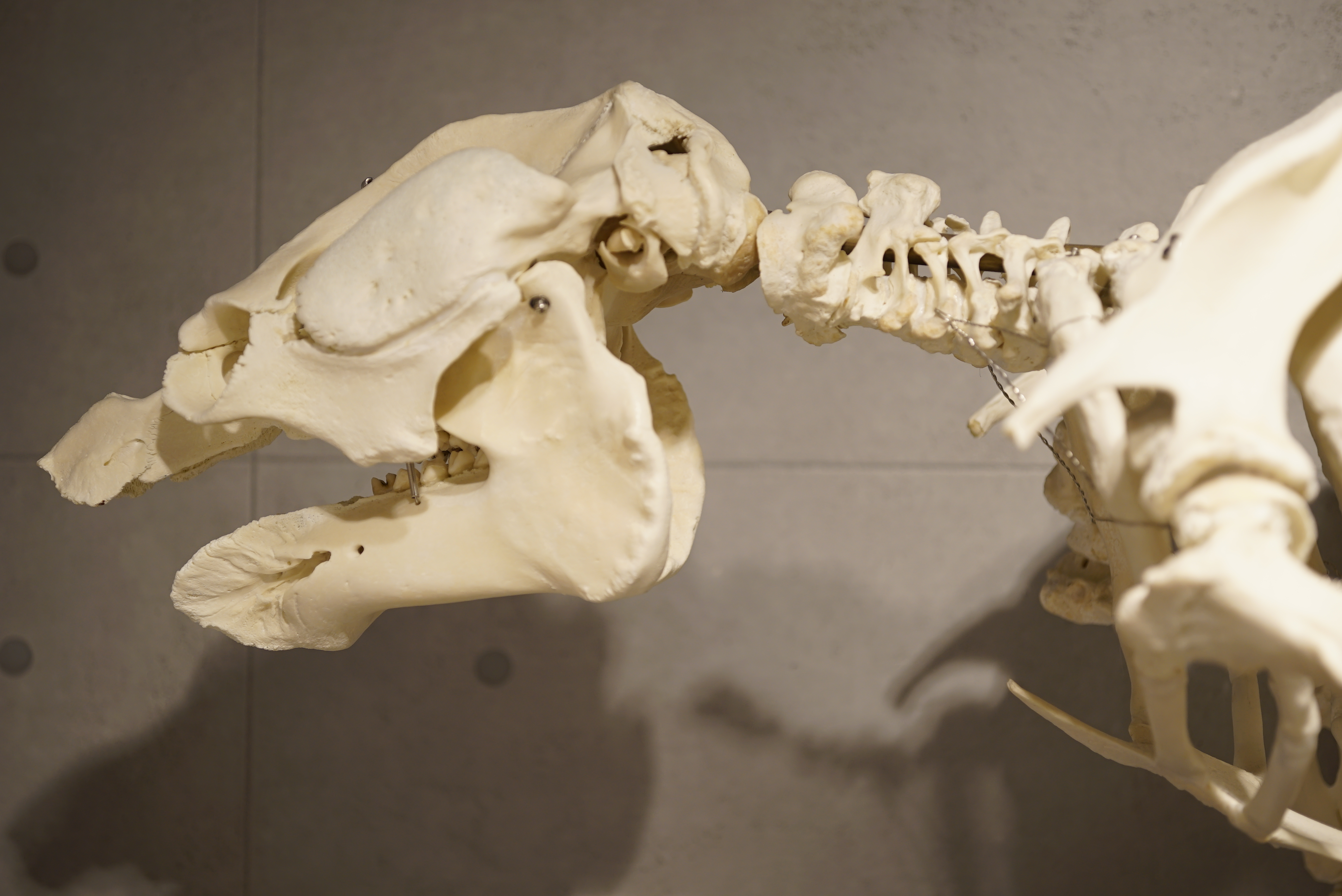 Skull of African manatee Trichechus senegalensis